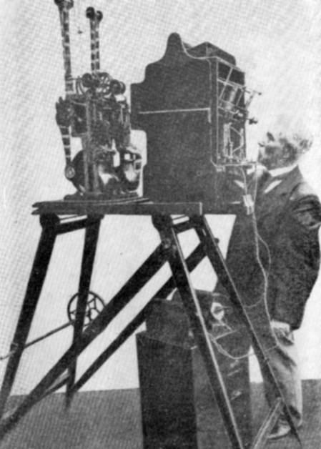 Biopleograph projector Kazimierz Prószyński 1898.